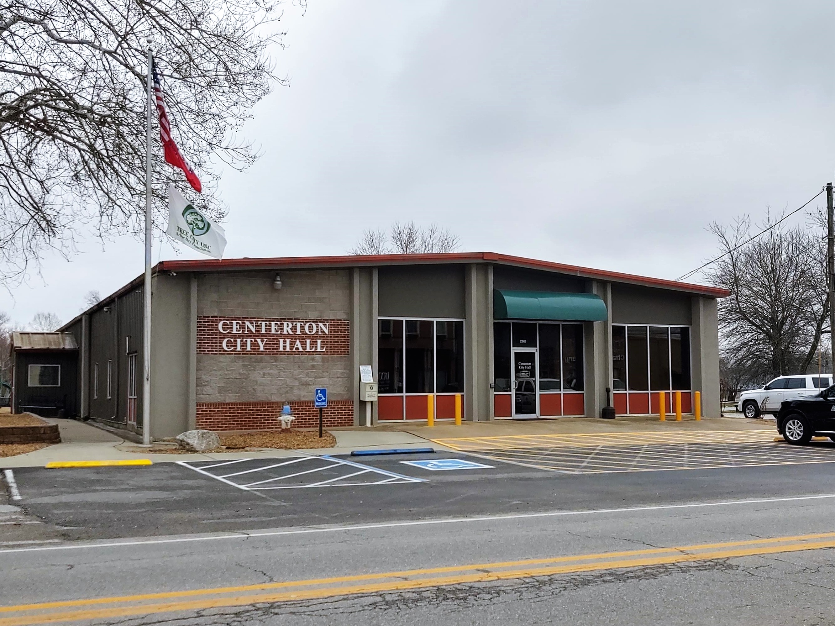 City Hall of the City of Centerton, Arkansas